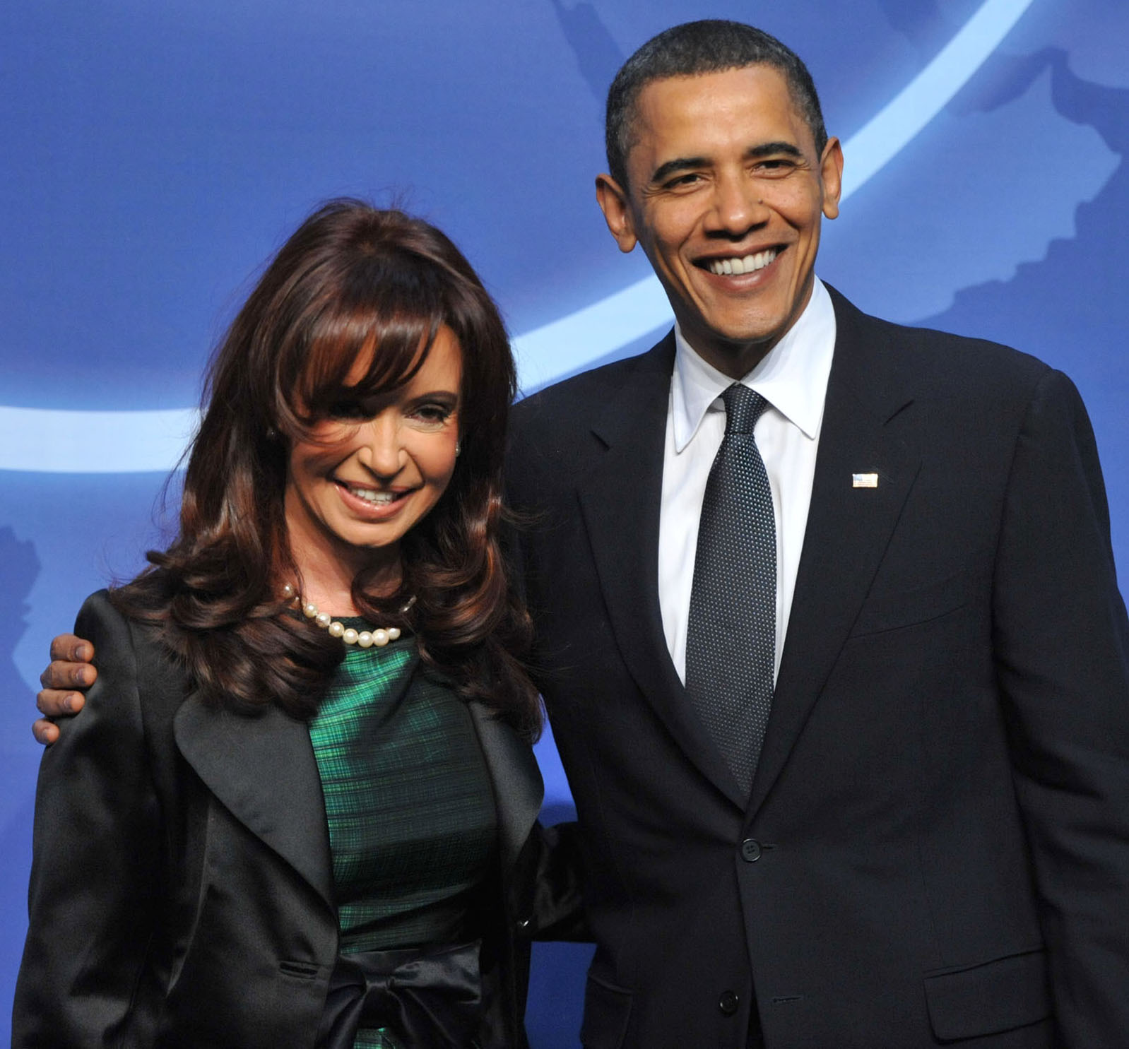 Presidents Obama and Cristina Fernandez